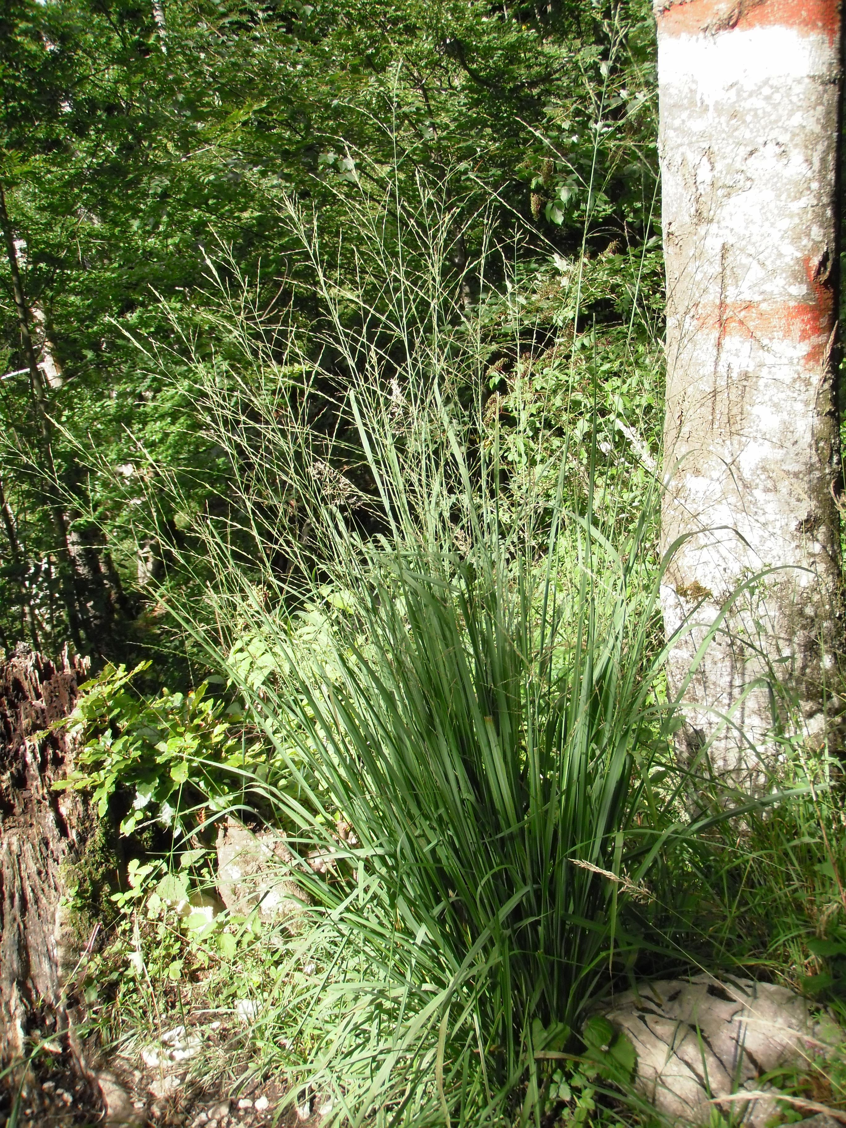 Molinia arundinacea, Großer Sonnstein, Ebensee, Austria